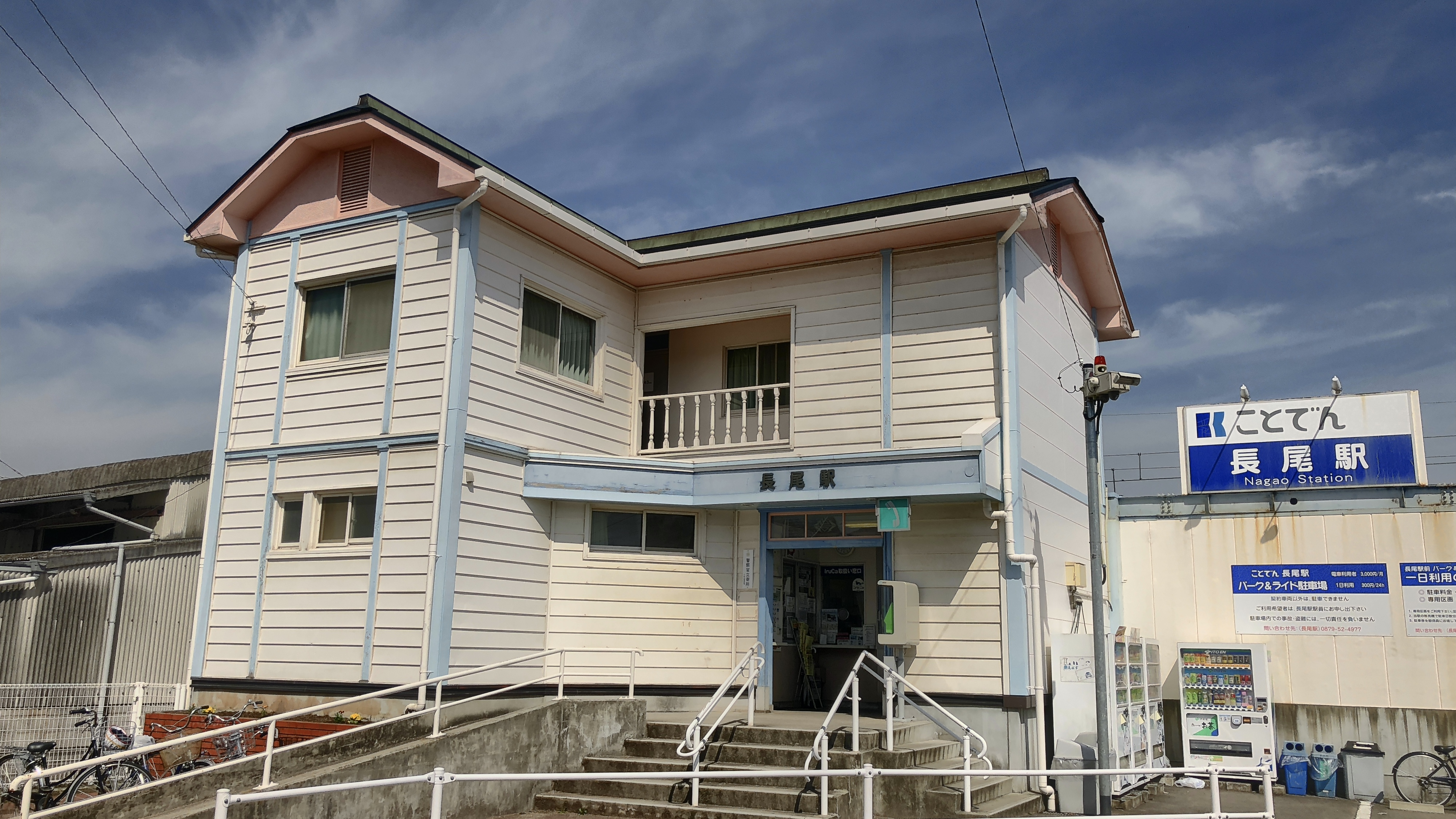 Takamatsu Kotohira Electric railroad Nagao Station Station Building Photograph taken on March 24, 2018